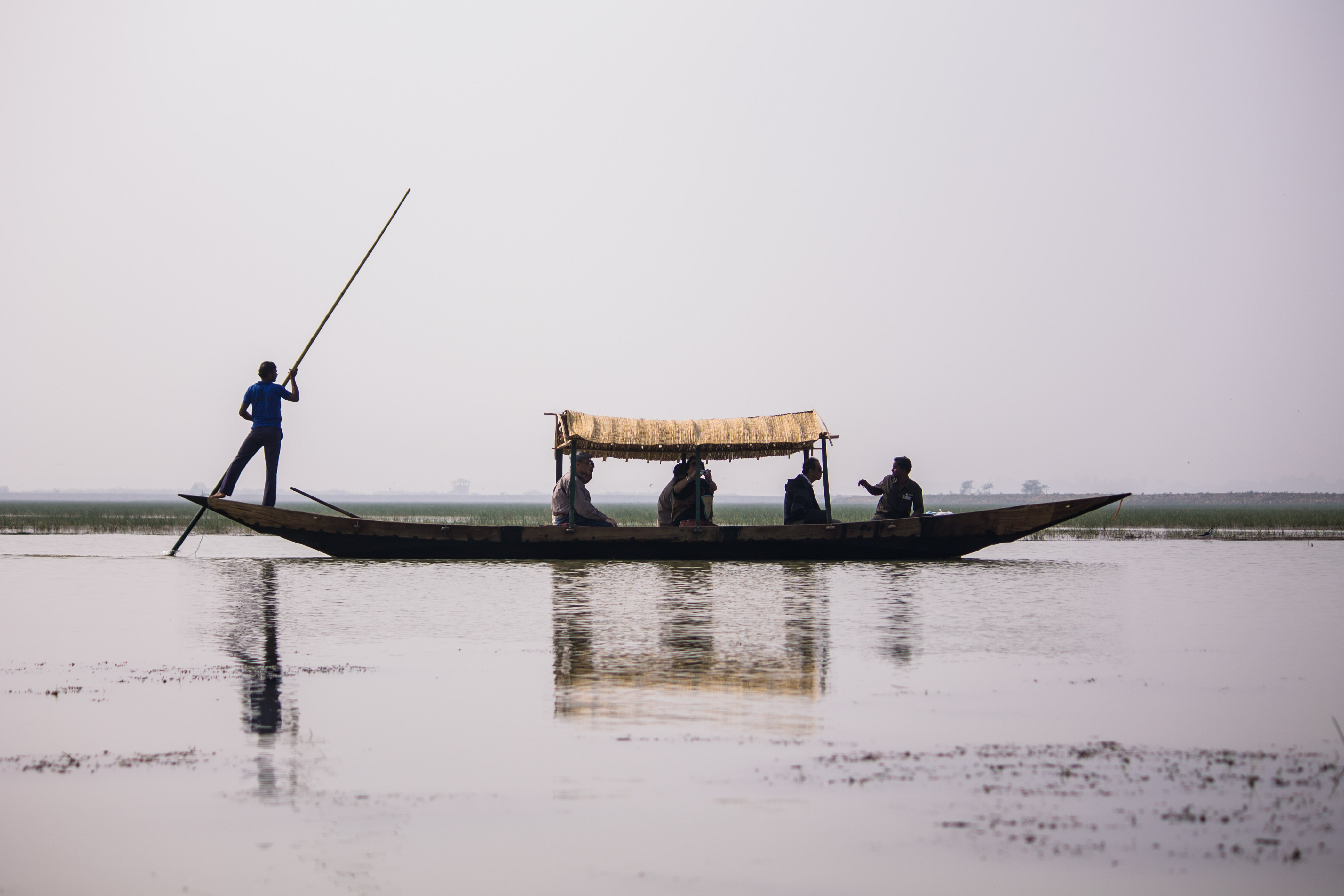 Birds frequent this wildlife sanctuary wetlands odisha mangalajodi india chilka lake orissa